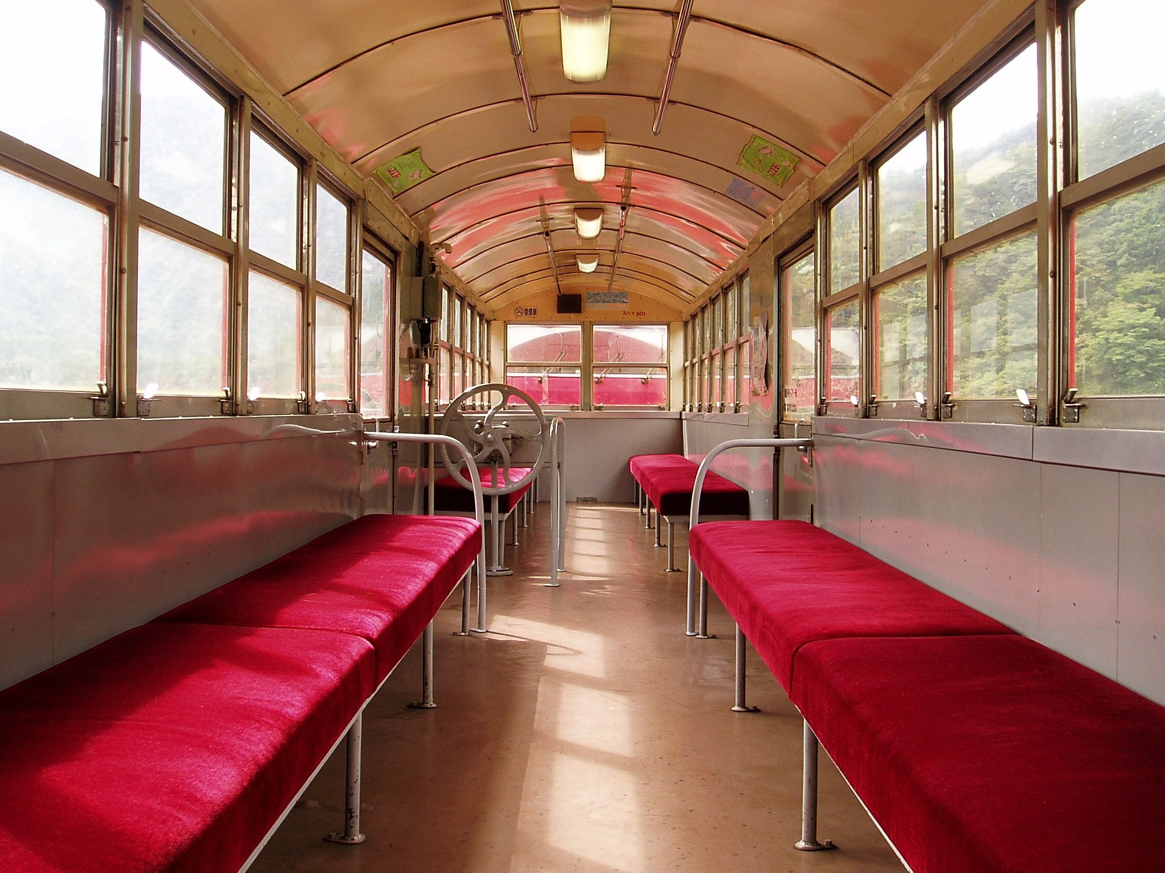 Inside of Oigawa Railway type Suhahu501.